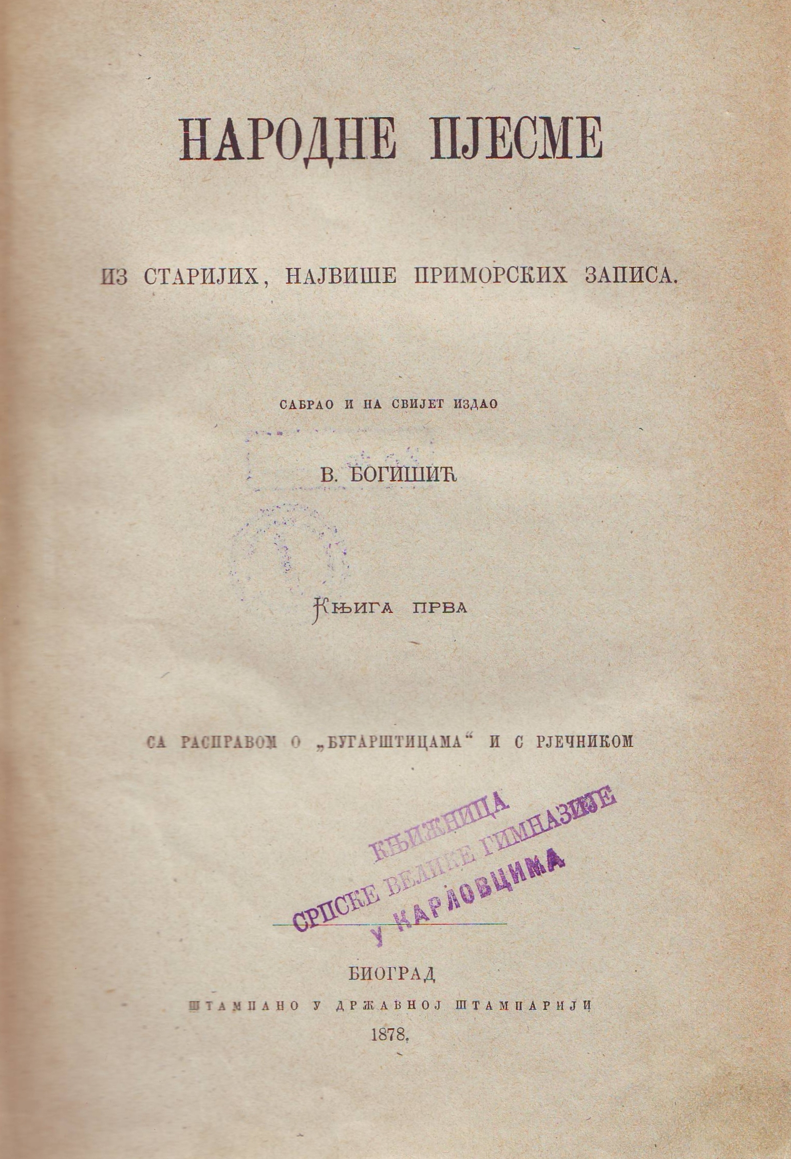 Cover of volume I of Narodne pjesme iz starijih, najviše primorskih zapisa (1878) by Valtazar Bogišić. Srpski (latinica): Naslovna strana prve knjige Narodnih pjesama iz starijih, najviše primorskih zapisa (1878) Valtazara Bogišića.